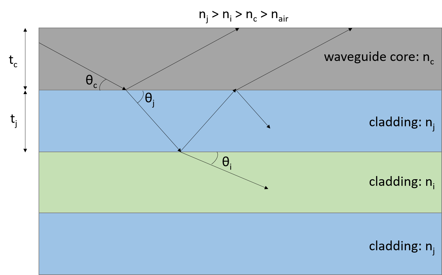 ARROW waveguide example